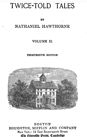 Twice-Told Tales by Hawthorne. Printed by Riverside Press, 1879